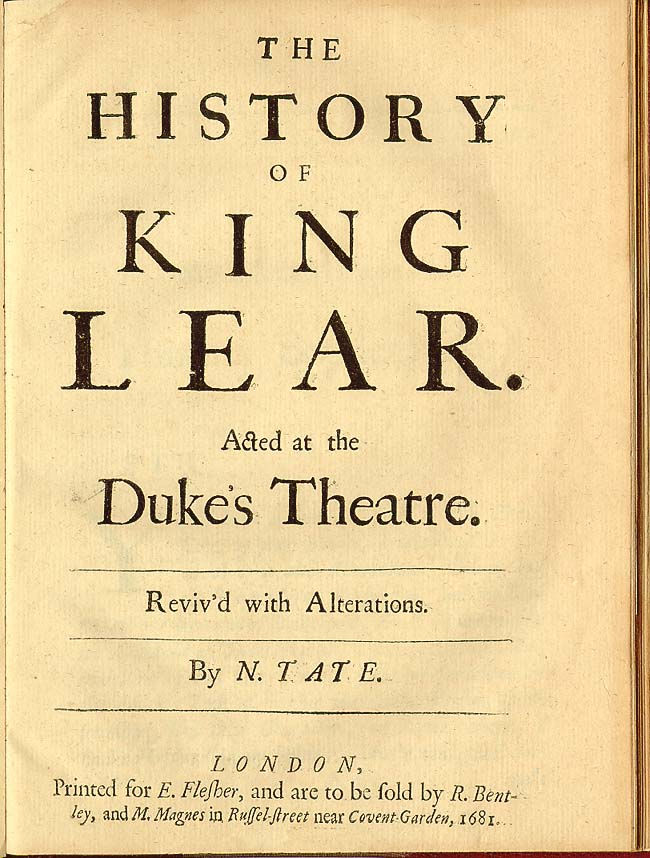 The History of King Lear (an adaptation of Shakespeare's tragedy by Nahum Tate) from 1681.